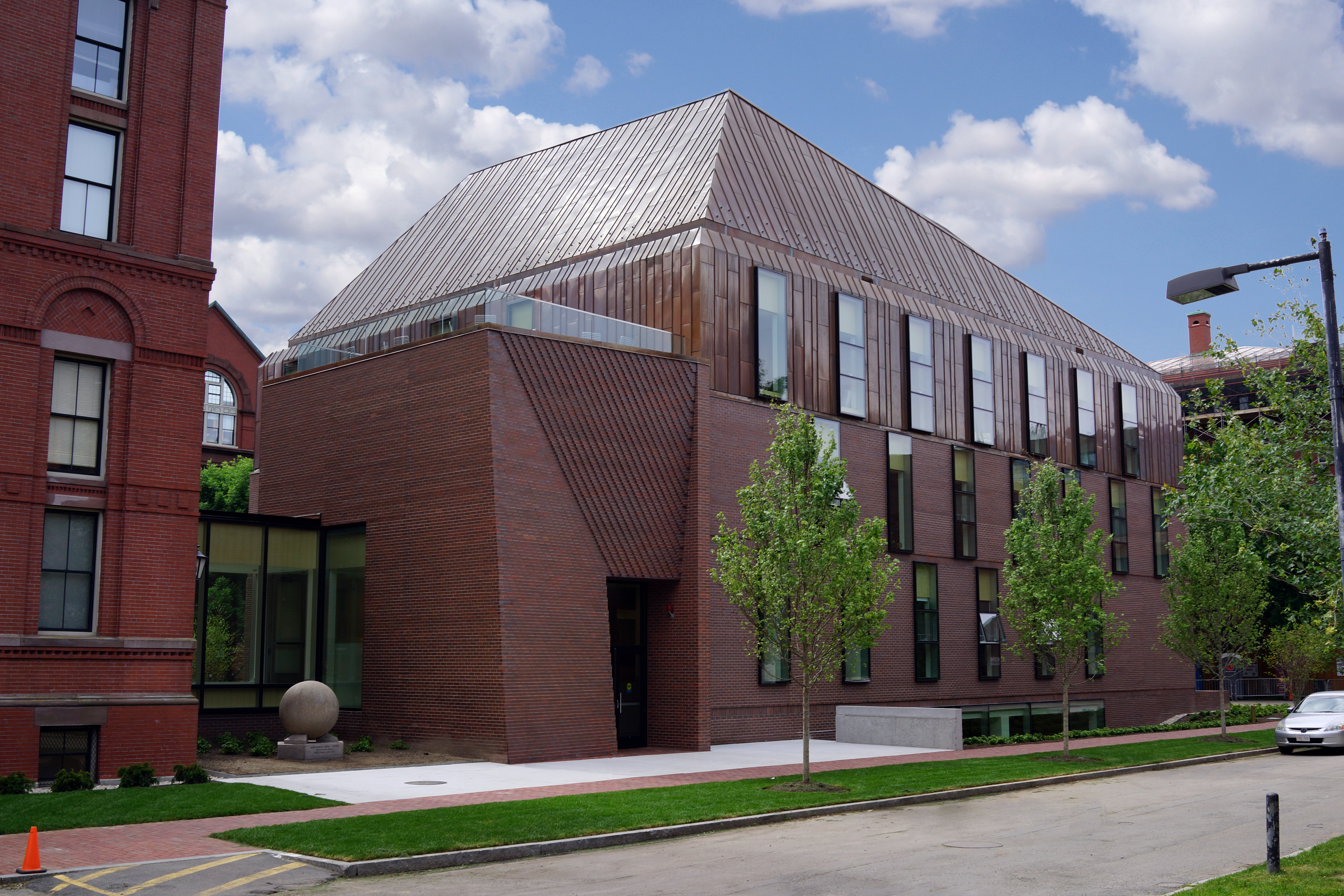 Exterior Photo of Tozzer Library, Located on Divinity Avenue in Cambridge (photo credit: Shelley Zatsky, Harvard University)